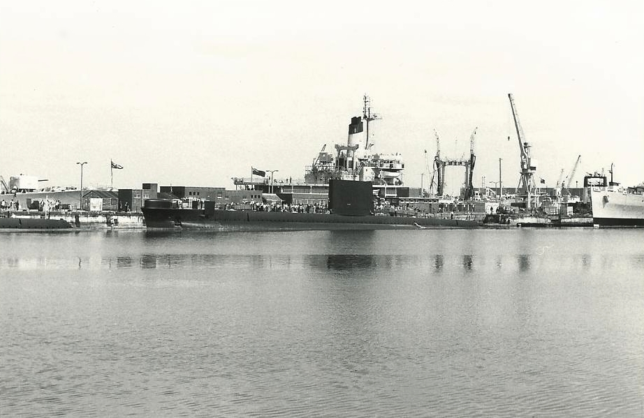 "Porpoise" Class submarine "HMS Sealion", 2,080 tons, launched 1959, completed 1961. At the Portsmouth Navy Day, 08/80. Scanned photograph taken with a Canon AE-1 Program.